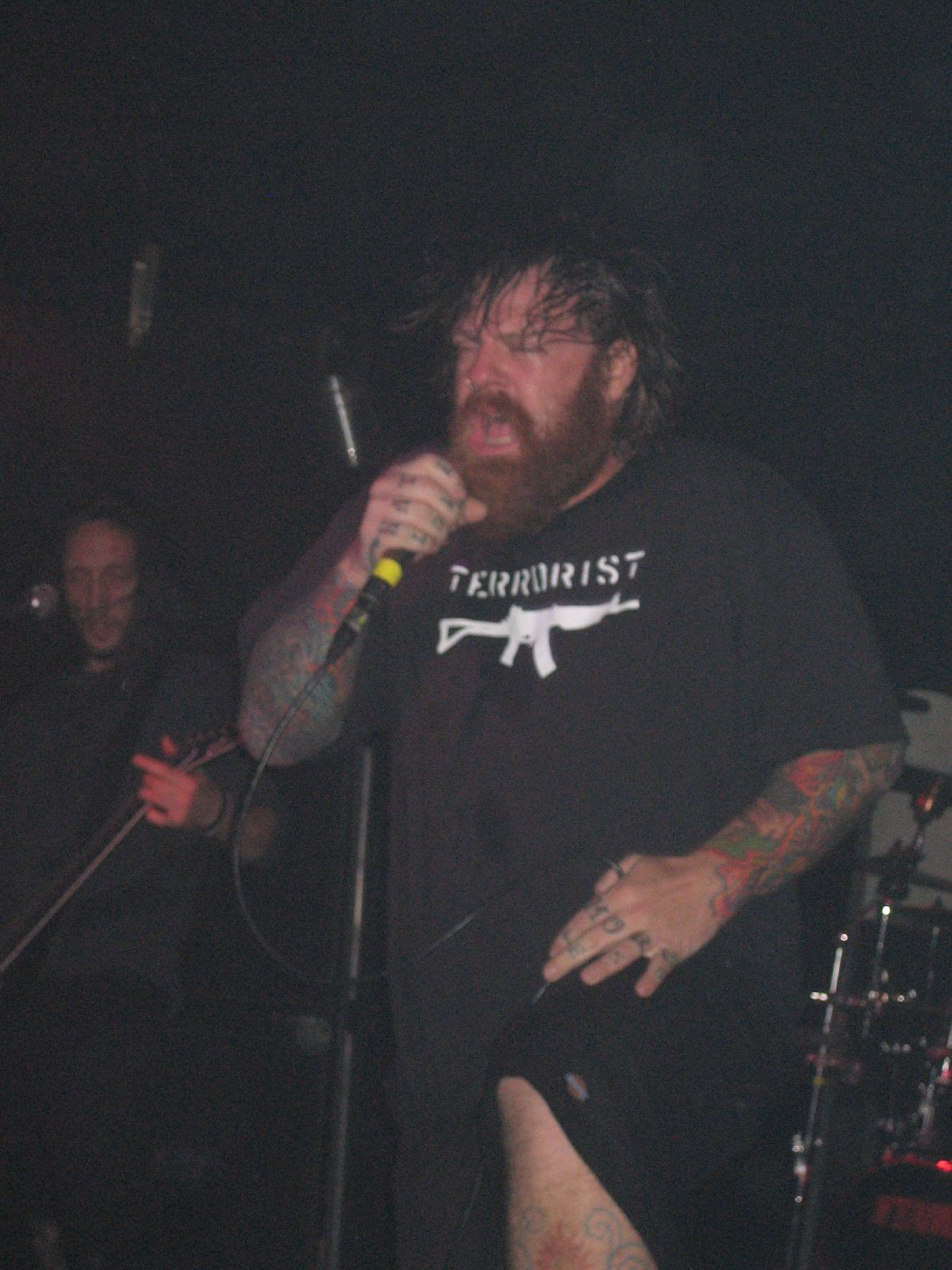 Thrash metal band Exodus. Concert in Hairy Mary's in Des Moines, Iowa. Part of The World Abominations Tour 2005.